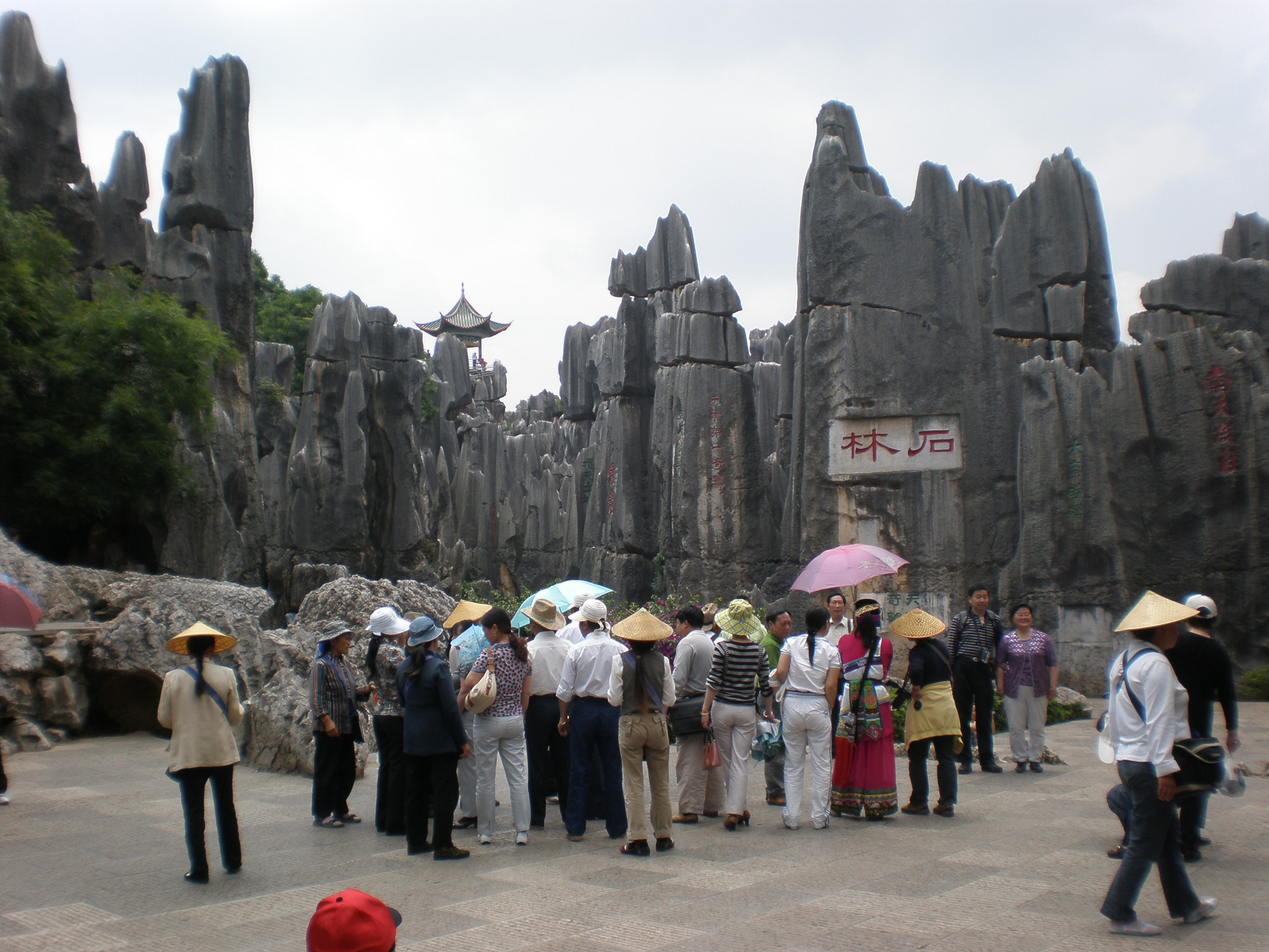 A section of the western area of the Major Stone Forest, the main portion of the Stone Forest in Yunnan.